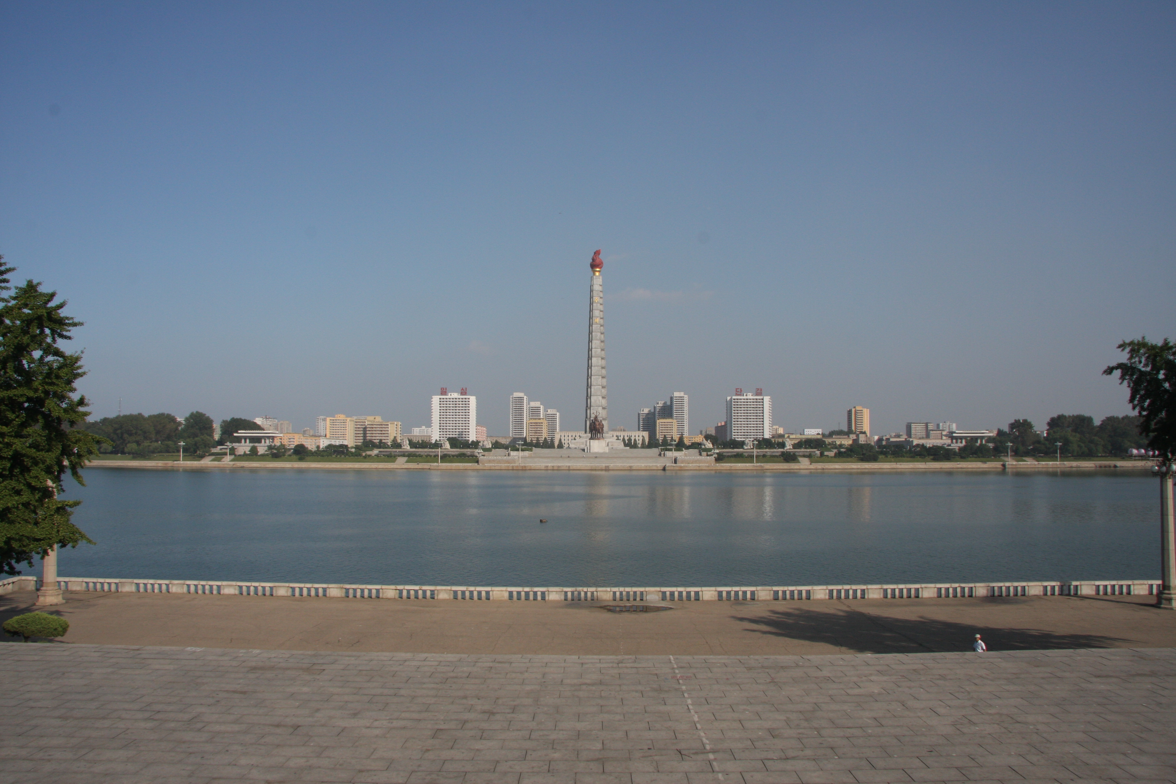 View from the Kim Il-Sung Square over Taedong River towards the Juche Tower, Pyongyang.